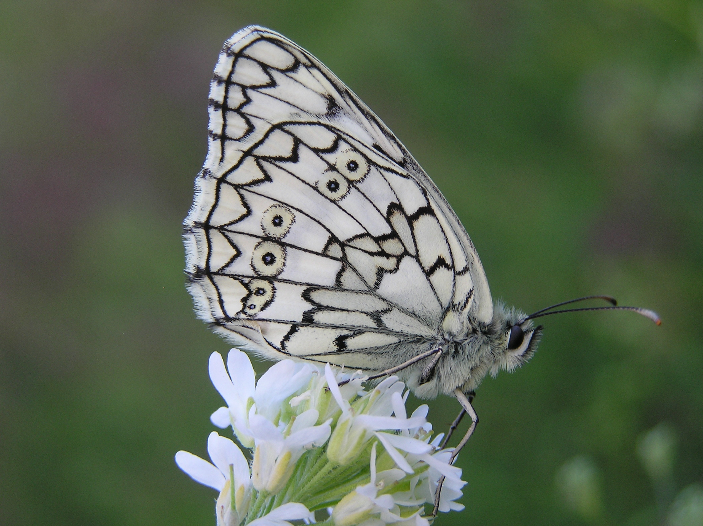 Esper's Marbled White (Melanargia russiae Esp.), male. Vicinity of Saratov city, Russia.